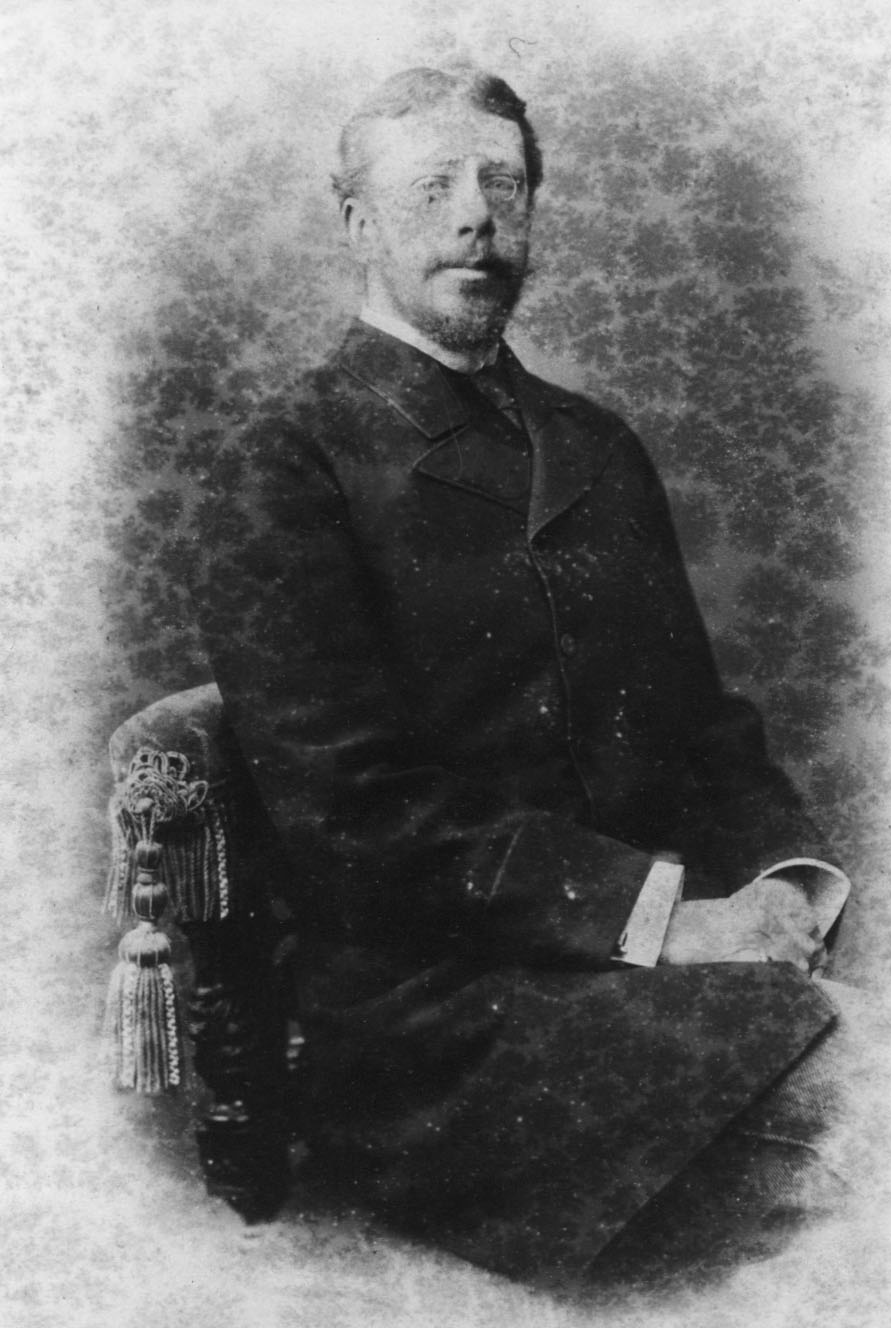 Prince Henry of Bourbon-Parma, Count of Bardi (Italian: Enrico Carlo Luigi Giorgio, Principe di Parma, Conte di Bardi) (12 February 1851 in Parma, Duchy of Parma[1] – 14 April 1905 in Menton, France[1]) was the youngest son and child of Charles III, Duke of Parma and his wife Princess Louise Marie Thérèse of France, the eldest daughter of Charles Ferdinand, Duke of Berry and Princess Caroline Ferdinande Louise of the Two Sicilies.